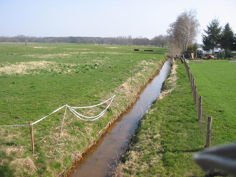 Middle River Nuthe in the village Mühro, one of three spring-rivers. Mühro is a part of municipality Polenzko in the nature park Fläming. Polenzko belongs to the the district Anhalt-Zerbst, state Saxony-Anhalt, Germany.